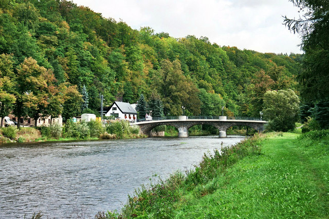 The Flöha in Falkenau.